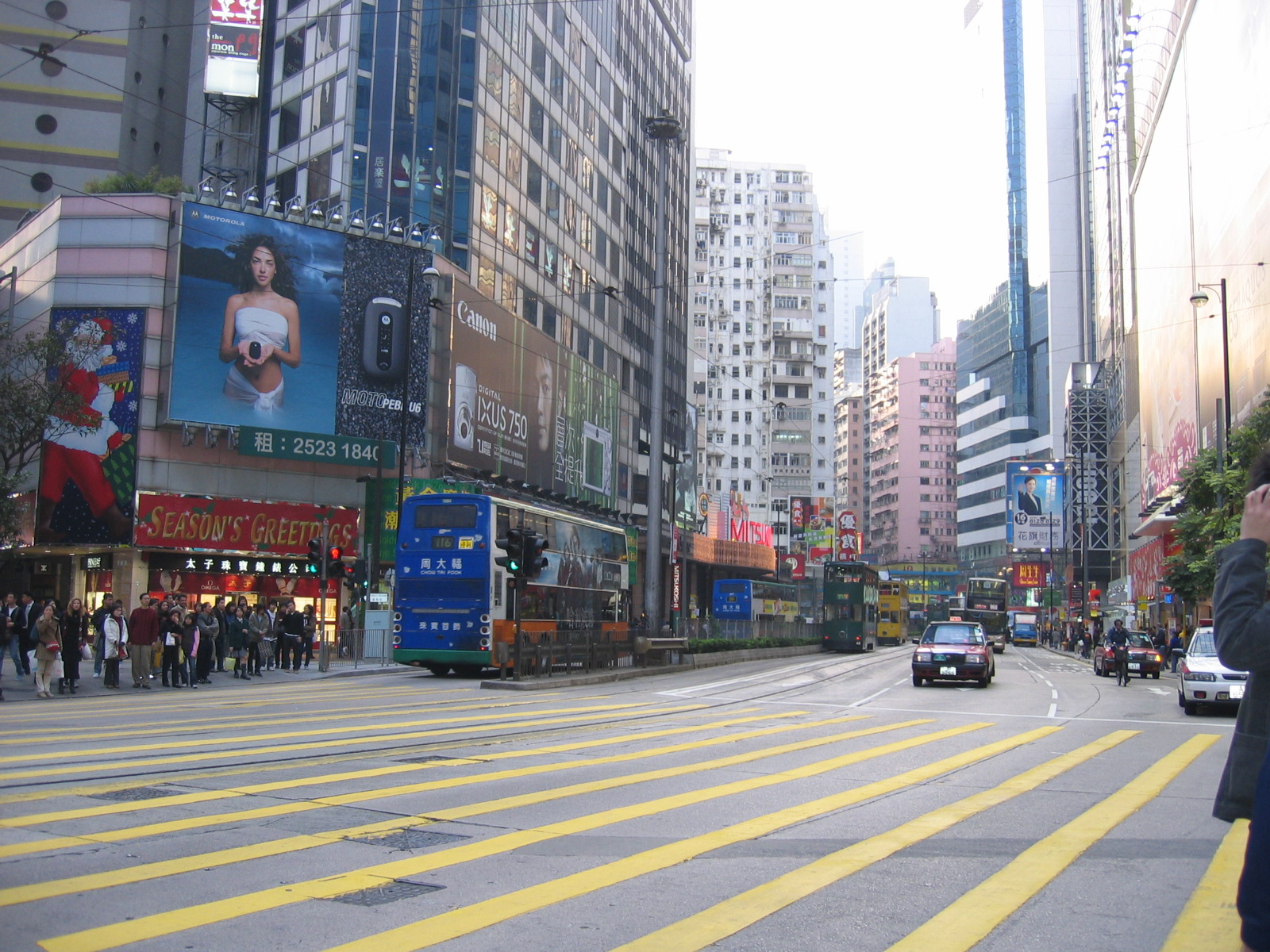 Hennessy Road, Hong Kong. Taken by Terence Ong on 15 December 2005.